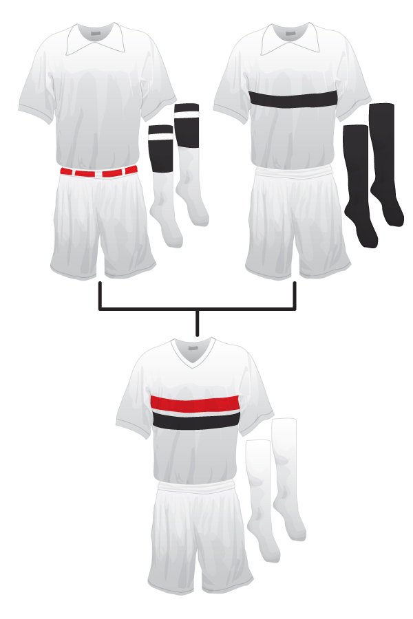 origin of the uniform of São Paulo Futebol Clube. A uniform of C.A. Paulistano in the left and one of A.A. das Palmeiras in the right which, together, resulted in the uniform of the São Paulo Futebol Clube.